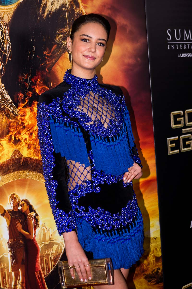 Courtney Eaton on the red carpet for 'Gods of Egypt' in New York City on February 24, 2016.